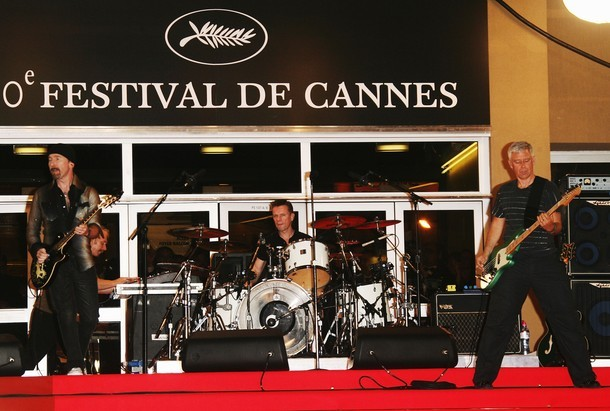 U2 performing at the 2007 Cannes Film FestivalU2 Film Premieres at Cannes